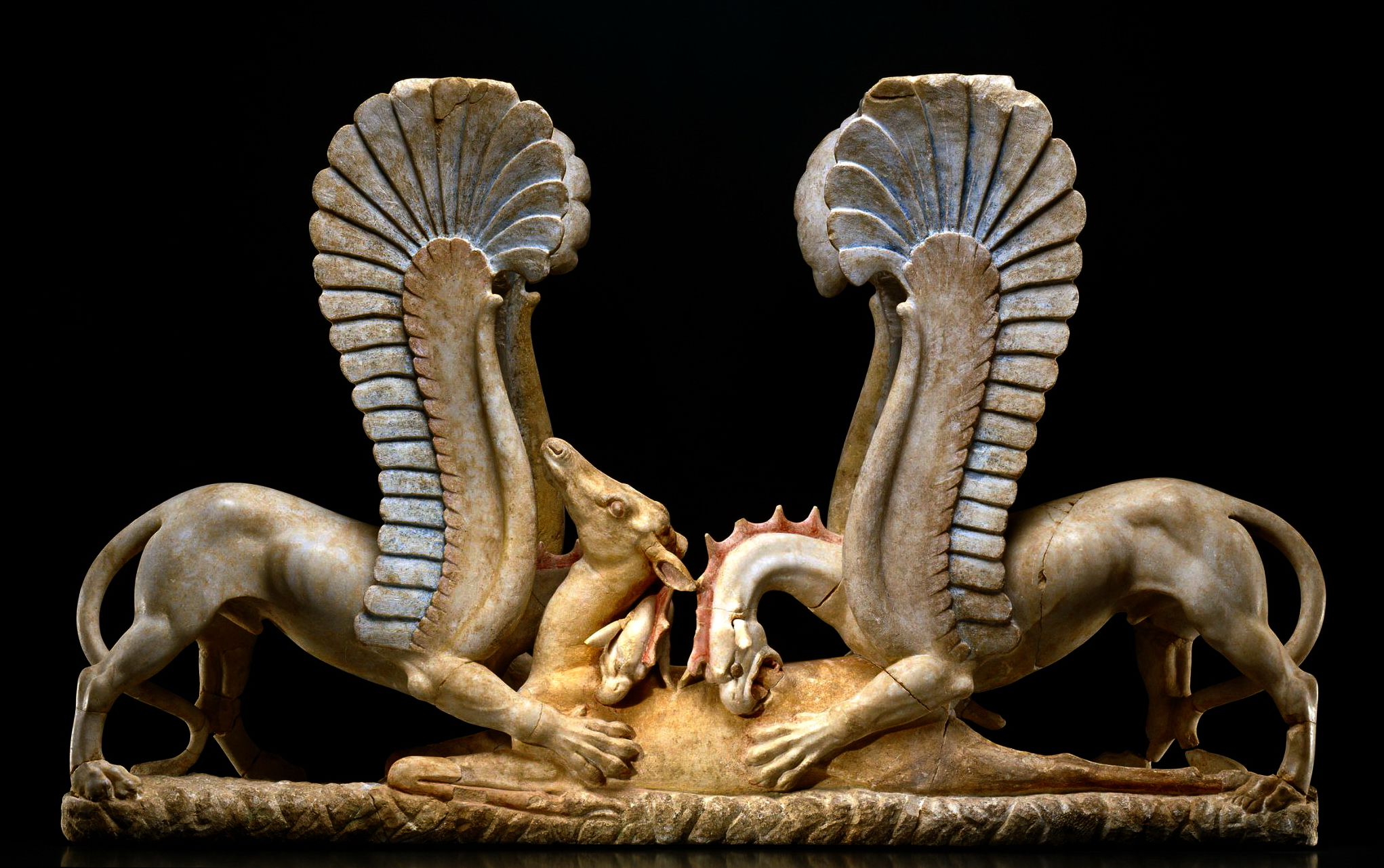 Table's pedestal (Trapezophoros) with two griffins devouring a deer. Polychrome marble carving (4th century Before Christ) belonging to a Dauni's citizen high society grave. Recovered in Ascoli Satriano (Foggia, Italy), the work is considered as a masterpiece with no pre-existing equals. .